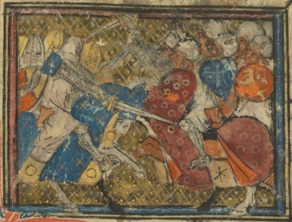 Miniature from the page 197 recto of the medieval manuscript #24369 of the chanson de geste Aliscans (Bibliothèque nationale de France)